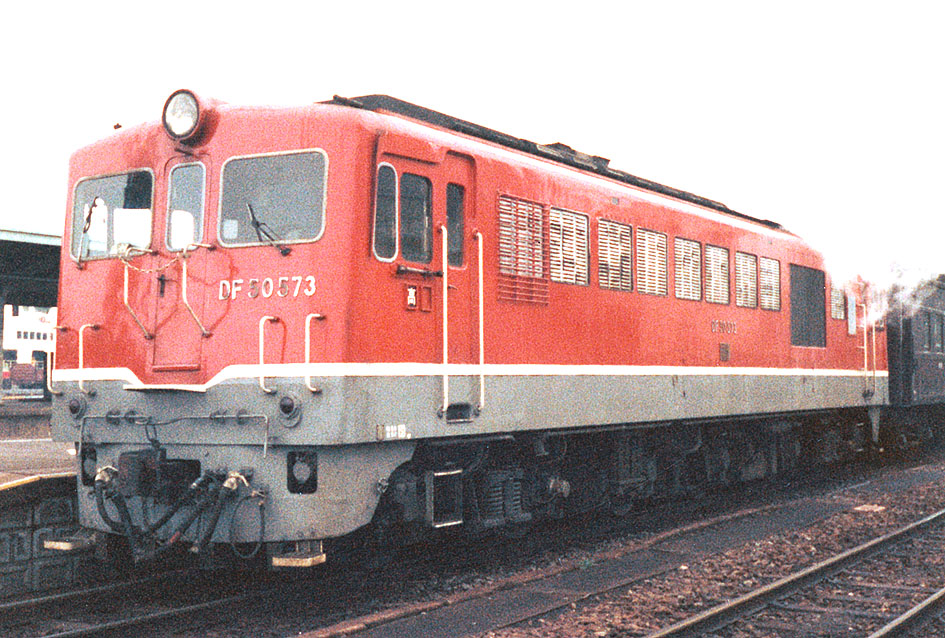 JNR Class DF50-500 diesel locomotive DF50 573 at Takamatsu Station on a passenger service